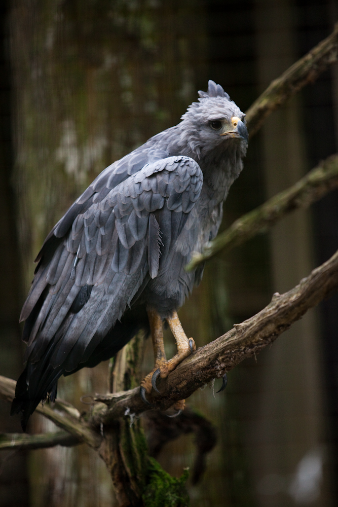 Crowned Solitary Eagle in captivity.